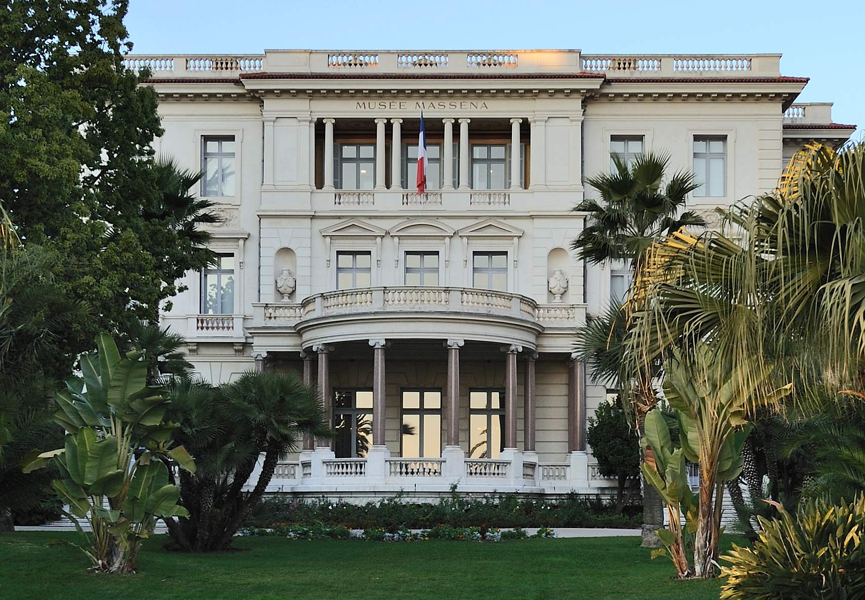 The Musée Masséna in Nice